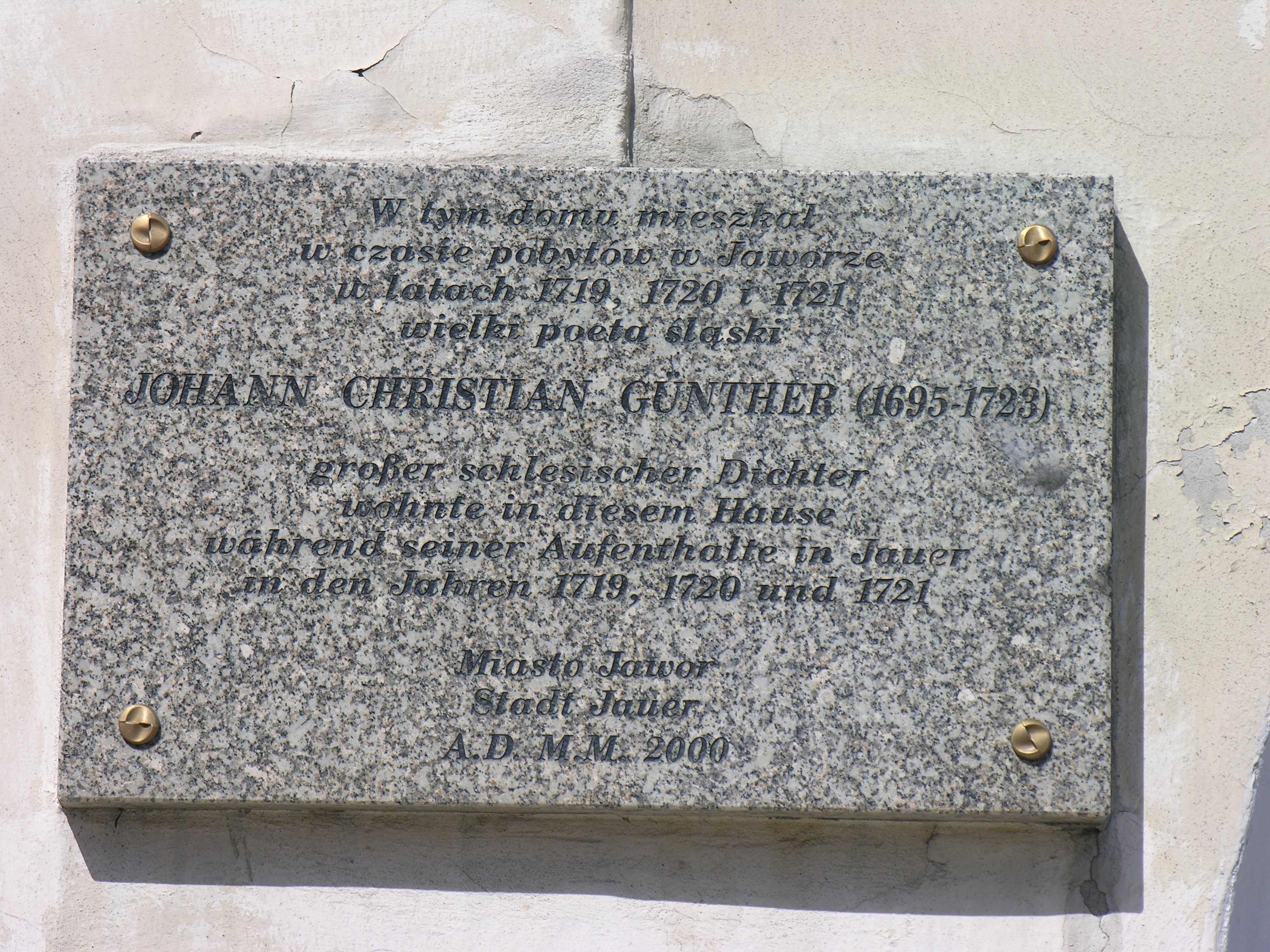 Tablica ku czci Johanna Christiana Günthera w Jaworze